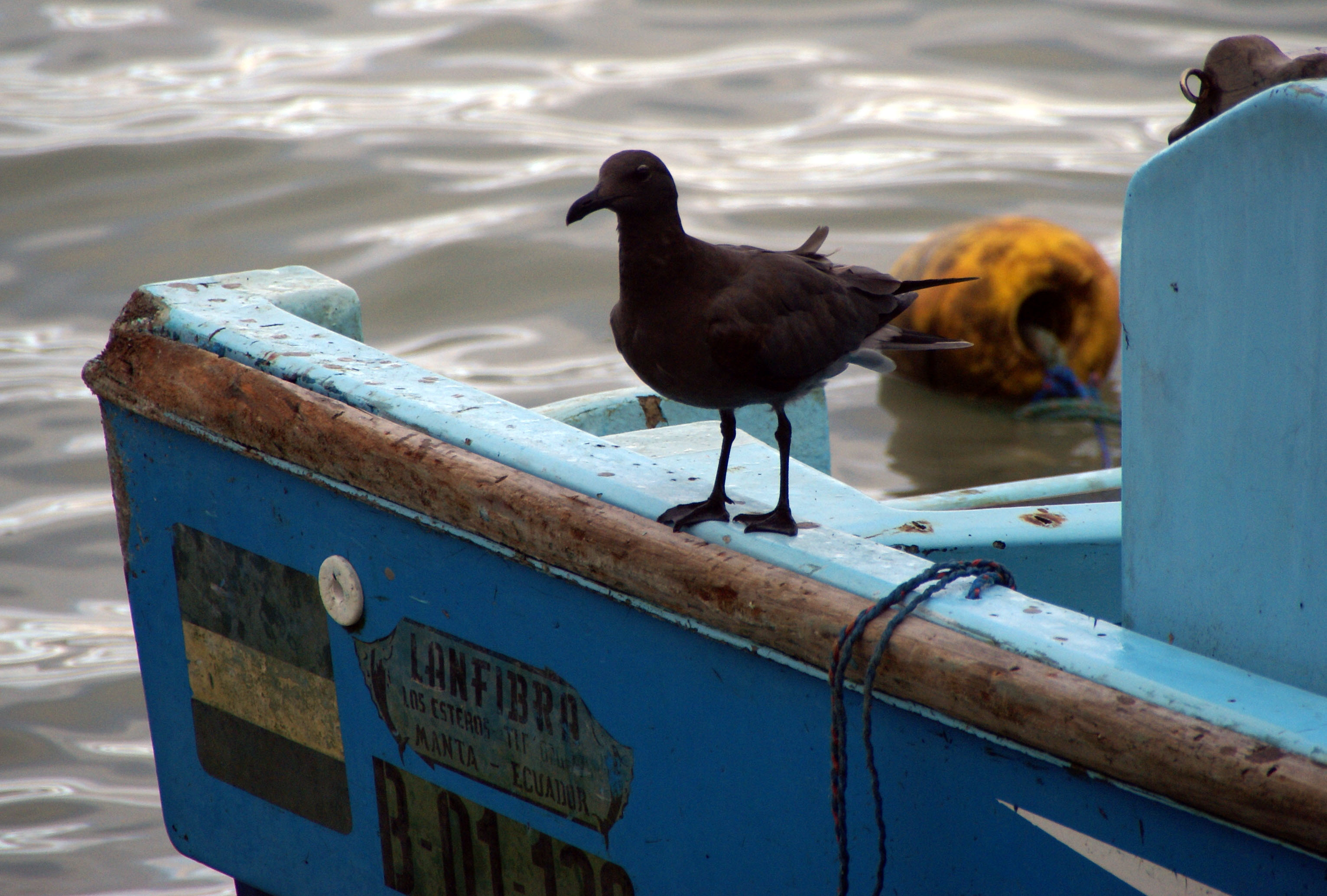 Lava Gull (Larus fuliginosus), Santa Cruz Island, Galapagos.